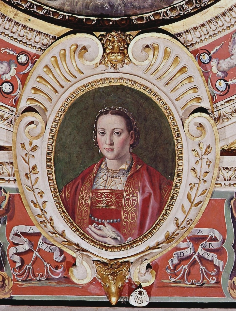 Eleonora of Toledo, daughters of the viceroy of Naples Pedro of Toledo, wife to Cosimo I de' Medici, Duke of Florence and Siena. This portrait is inspired by another of Bronzino (now in the Royal Palace of Pisa).